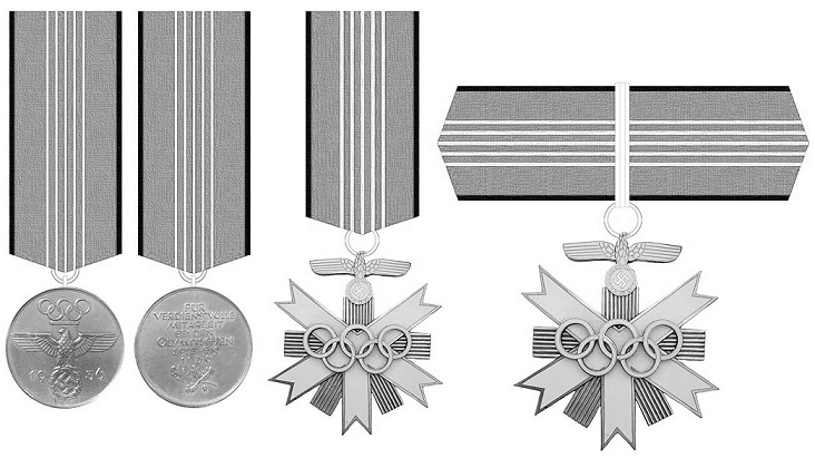 The German Olympic Games decoration of Nazi Germany awarded to administrators of the IV Olympic Winter Games in Garmisch-Partenkirchen and the Games of the XI Olympiad in Berlin 1936 (decoration was banned in 1945) German Olympic Memory Medal (frontside/backside) 2nd Class 1st Class